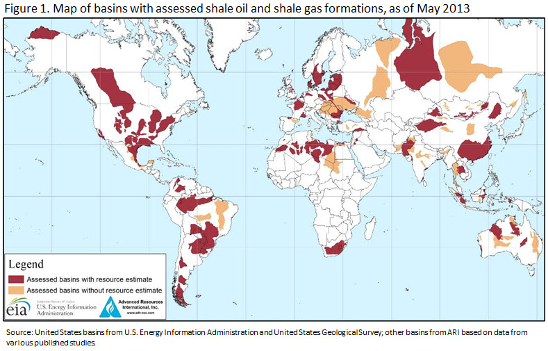 Map of major shale gas basis all over the world from the EIA report